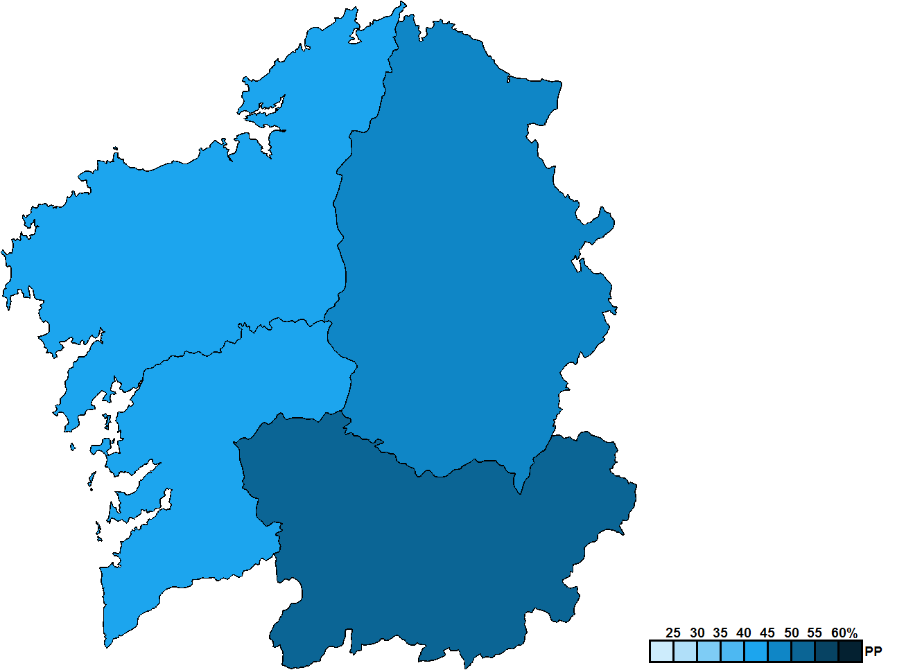 Provincial results for the 2005 Galician regional election.